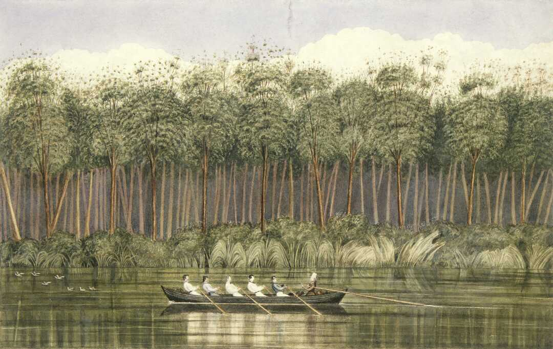 Cowdie forest on the Wairoa River, Kaipara by Charles Heaphy